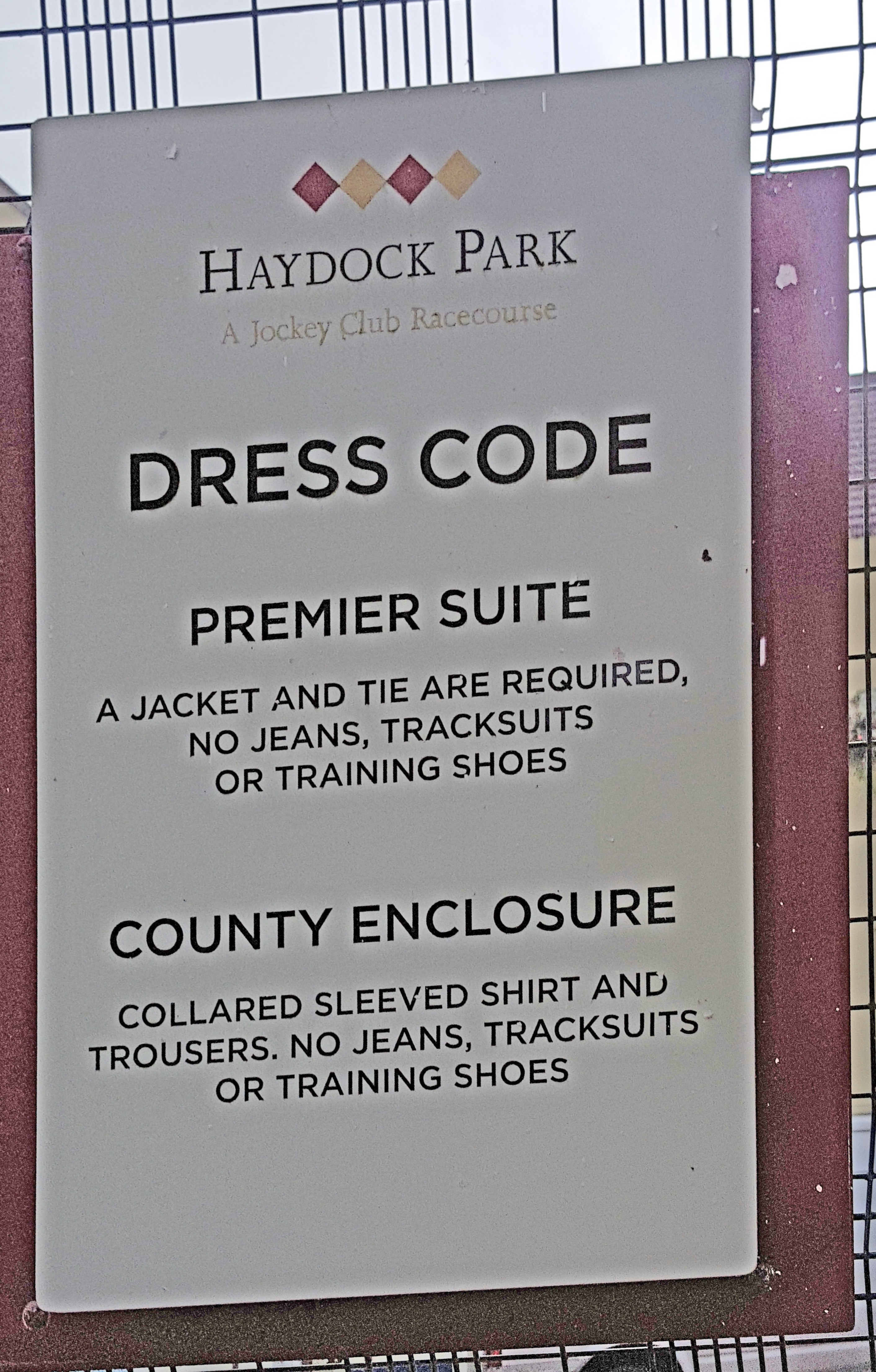 Haydock Park racecourse dress code